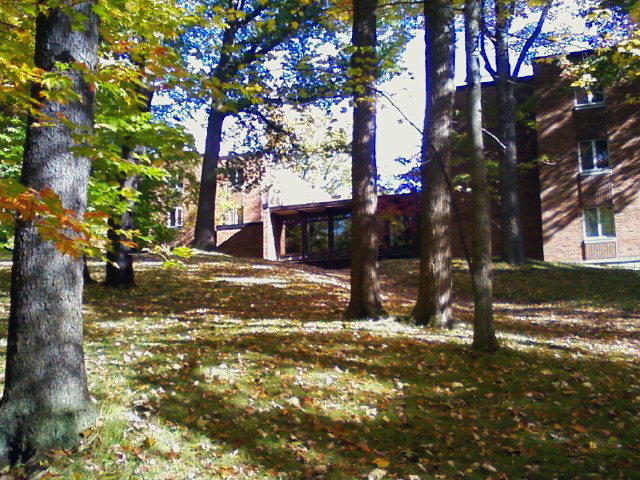 Ravine, a coed dormitory currently housing students of all class years.